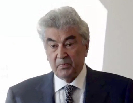 Gagik Harutyunyan, April 2014